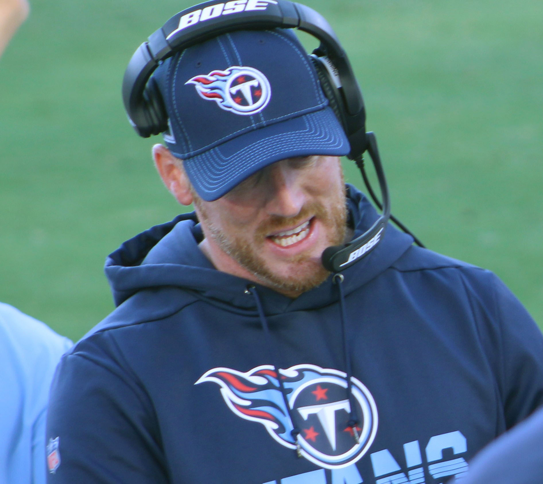 Downing with the Titans in 2019